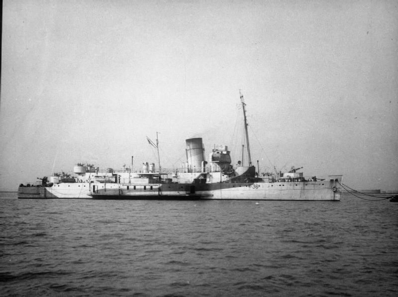 Photograph of British auxiliary minesweeper, later anti-aircraft ship, HMS Goatfell (PS Caledonia in peacetime).